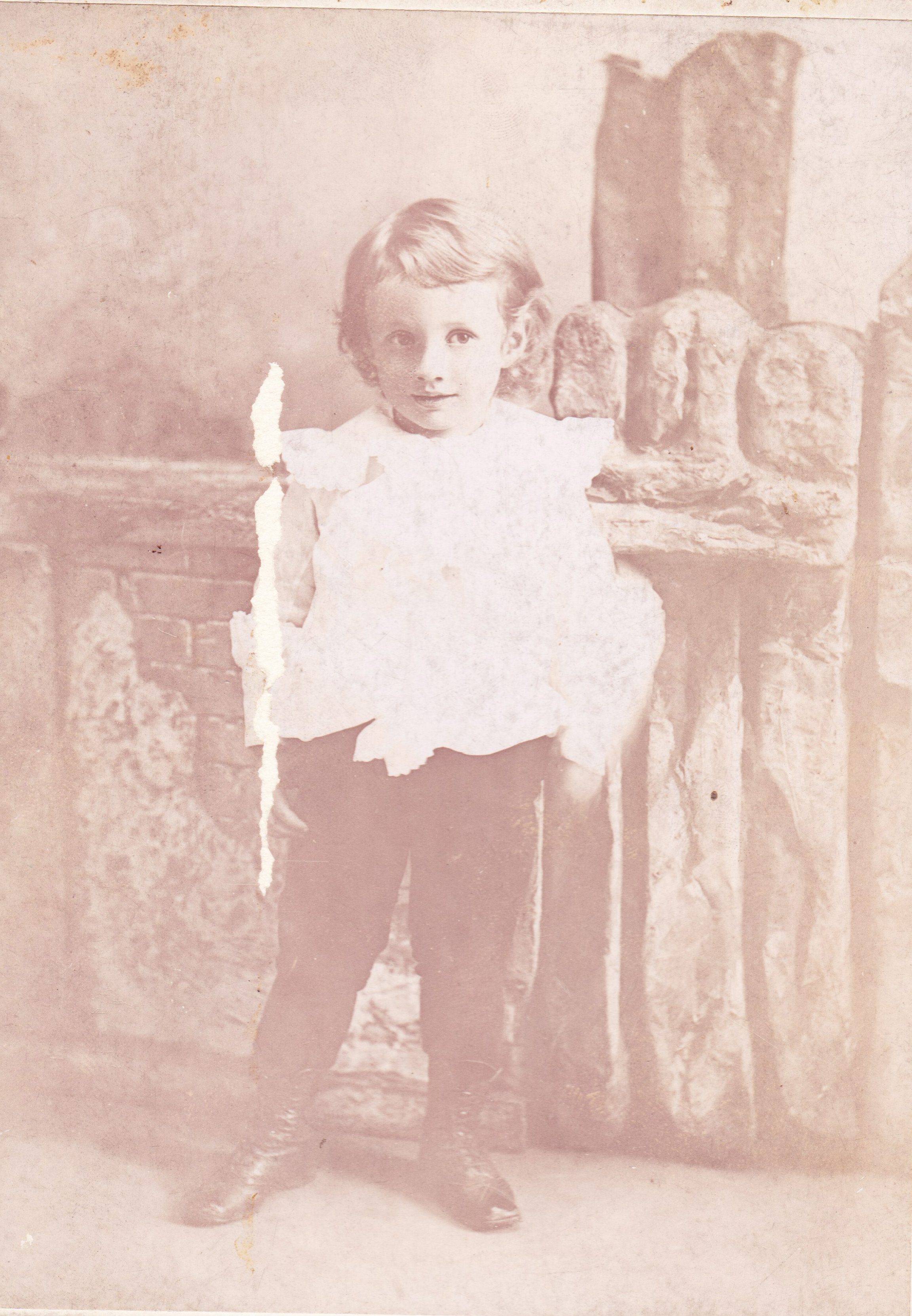 Childhood photo of American businessman and philanthropist R.J. O'Donnell at the age of four, at his family home in Chicago, Illinois.